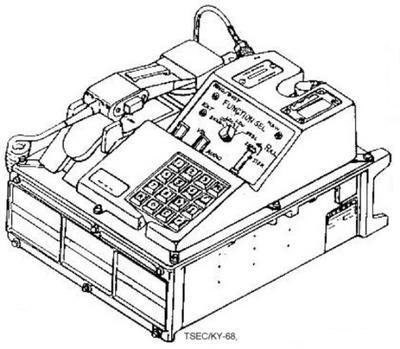 Drawing of the KY-68. Image original source is DoD FM-11-43. --Roidhun 14:15, 29 January 2006 (UTC)